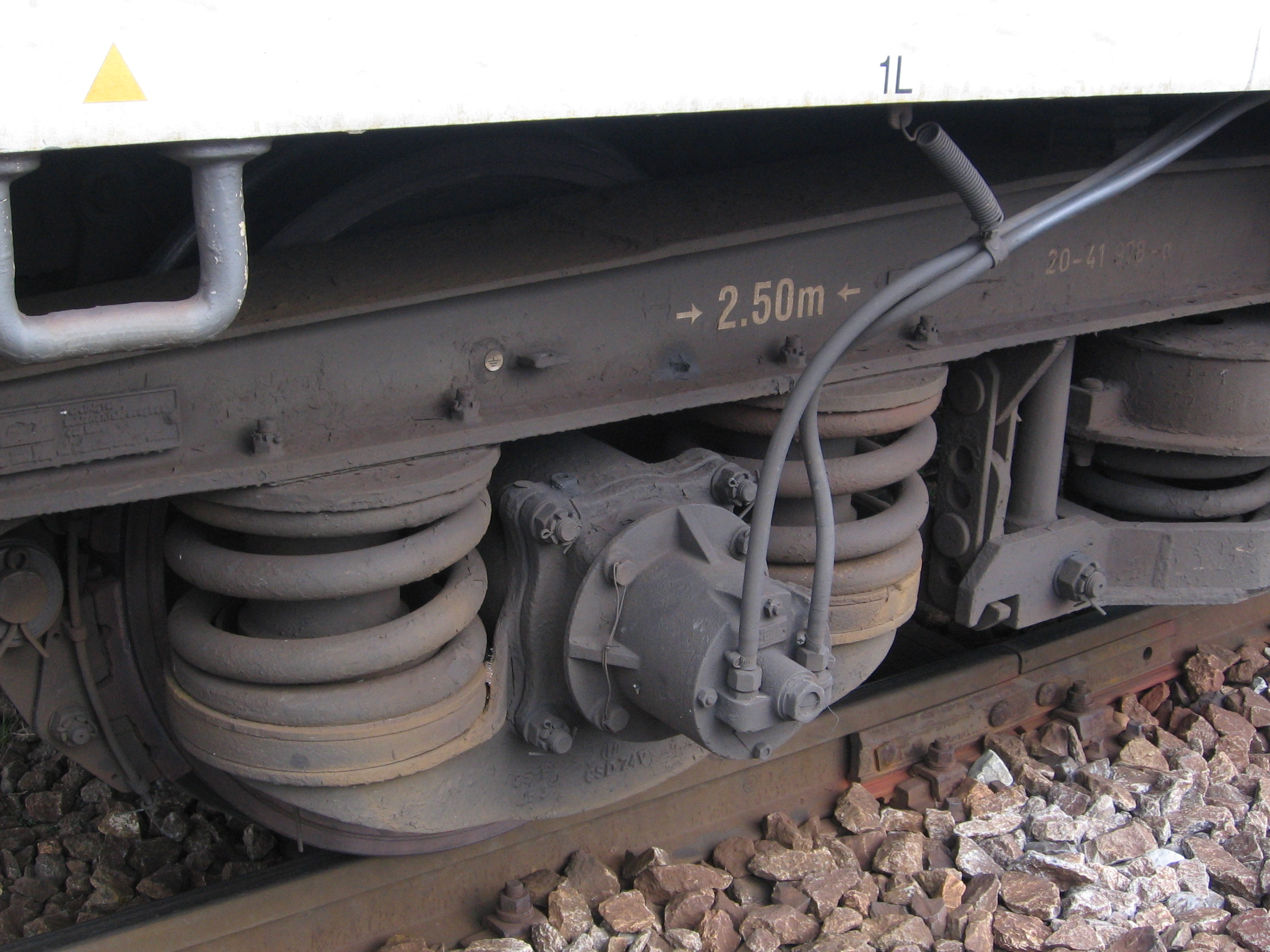 Centrifugal regulator for high and low degree of braking in R position